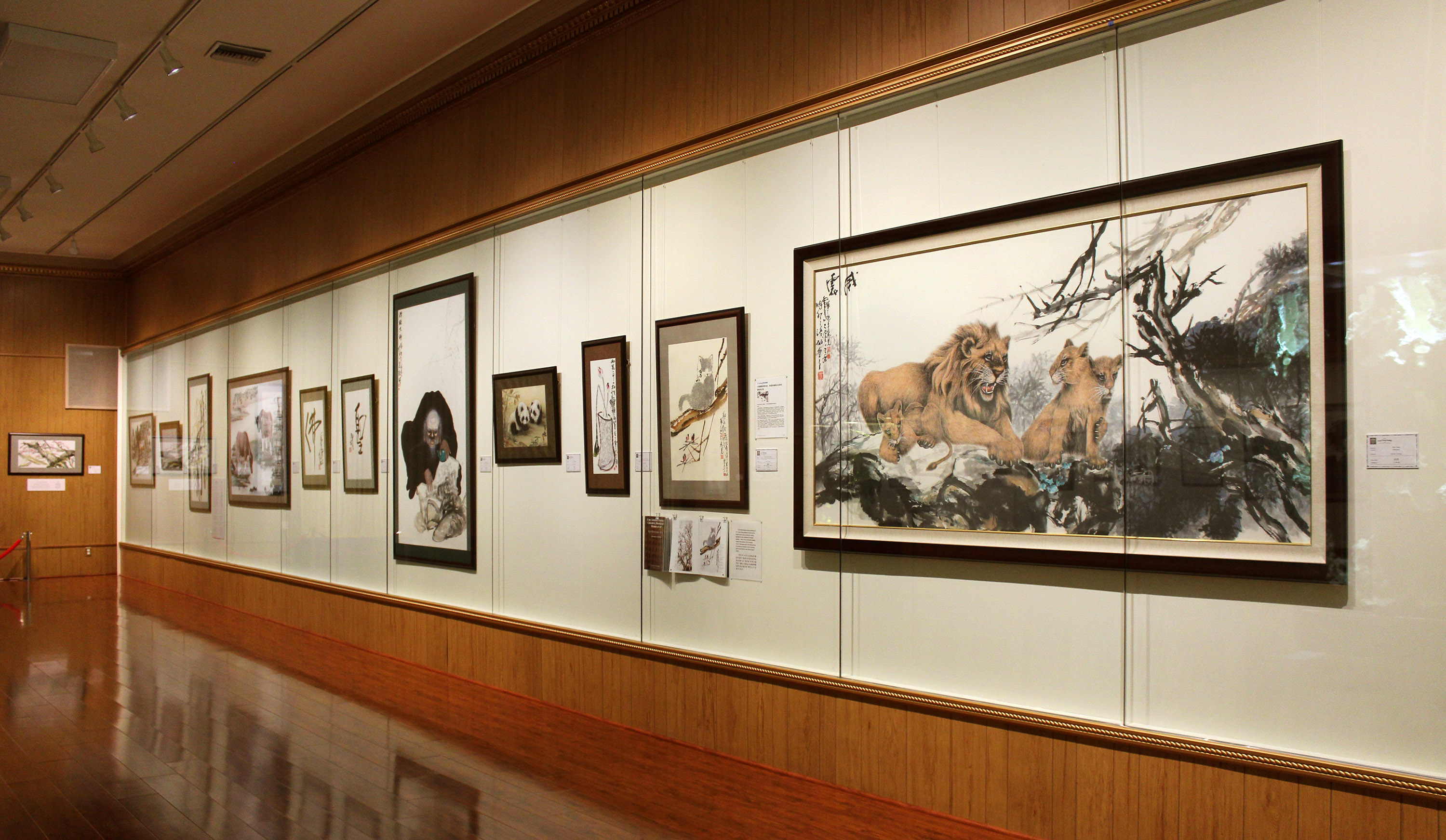 H.H. Dorje Chang Buddha III Cultural and Art Museum - second floor exhibition hall, Covina, California